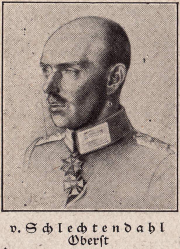 Prussain Lieutenant General Max-Friedrich von Schlechtendal